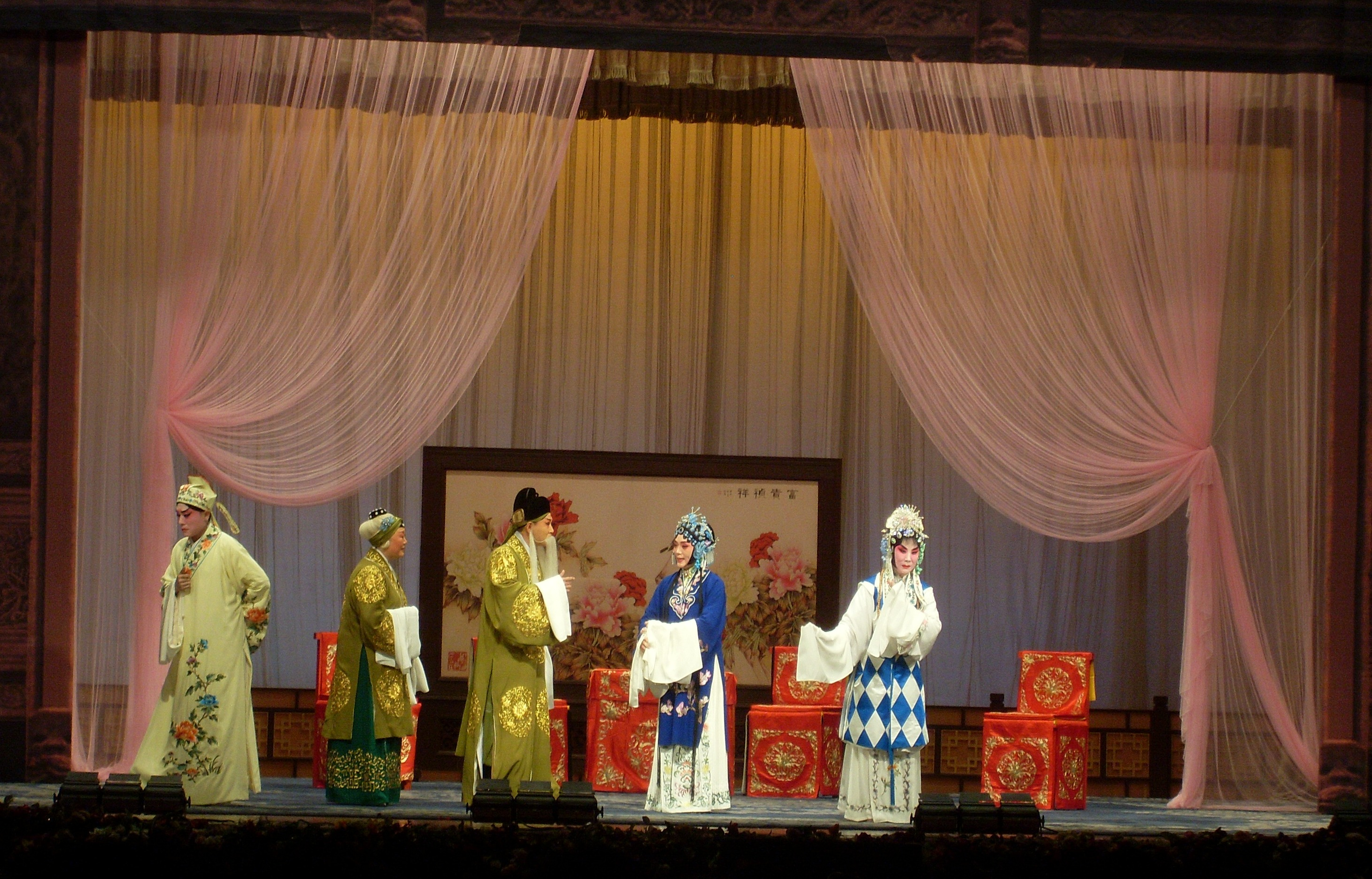 Taohuaan, Pingju, Tianjin 中文（中国大陆）: 评剧桃花庵，天津中国大戏院